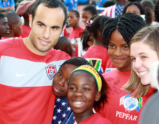 United States national team midfielder Landon Donovan poses with young fans in South Africa at an open training session ahead of the 2010 FIFA World Cup.